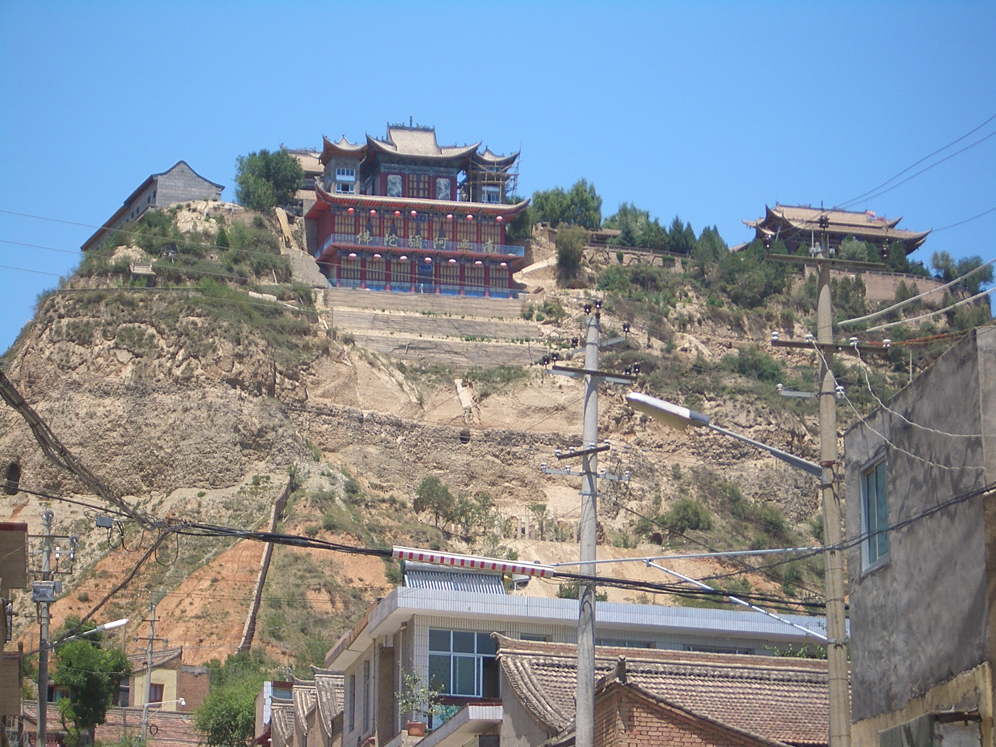 A Buddhist temple with the "Namo Amitabha" sign seen on a hill above the roofs of the Yu Bab Gongbei complex